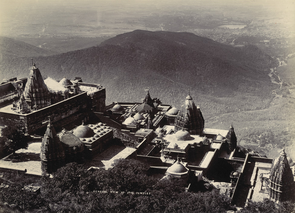 This panoramic view of the temples at Girnar near Junagadh in Gujarat was taken by F. Nelson in the 1890s from the Lee-Warner Collection: 'Photographs of Junagadh'. The holy Girnar mountain rises more than 900 metres above the plain in the outskirts of Junagadh. It is particularly sacred to the Jains and was an important pilgrimage centre since the third century BC as indicated by the inscriptions on a boulder with the edicts of the emperor Ashoka and the proclamations of a Kshatrapa and a Gupta ruler. The mountain is particularly sacred to the Jains but there are also several Hindu temples and a Muslim shrine. At a height of about 650 metres there is a group of sixteen Jain sanctuaries dedicated to Neminatha which constitute a temple city with enclosures called 'tuks'. The temples were built in the 12th-13th centuries during the Solanki period and in later centuries.